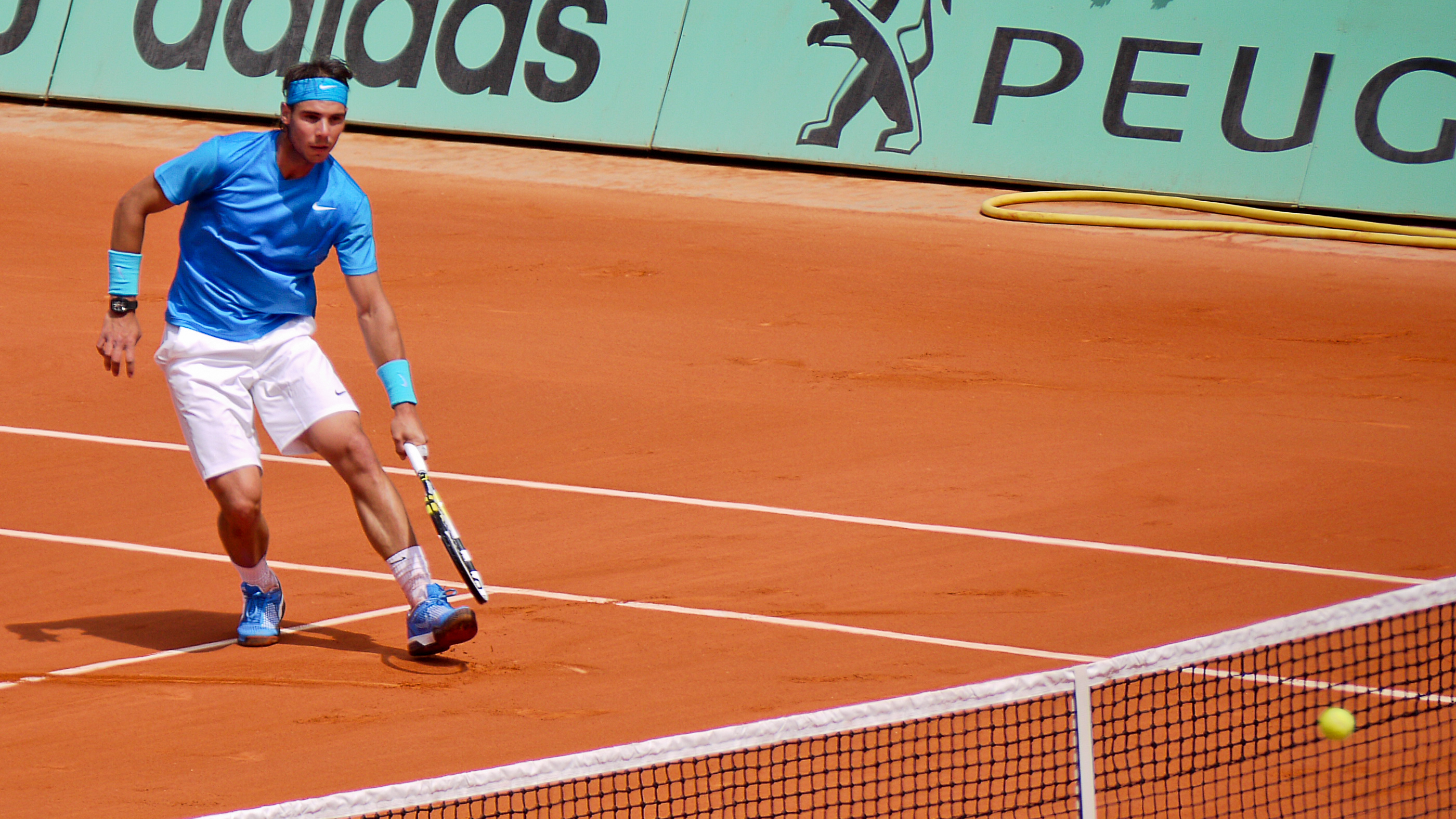 Rafael Nadal (ESP) def. John Isner (USA) Roland Garros 2011 - mardi 24 mai - 1er tour - Court Philippe Chatrier